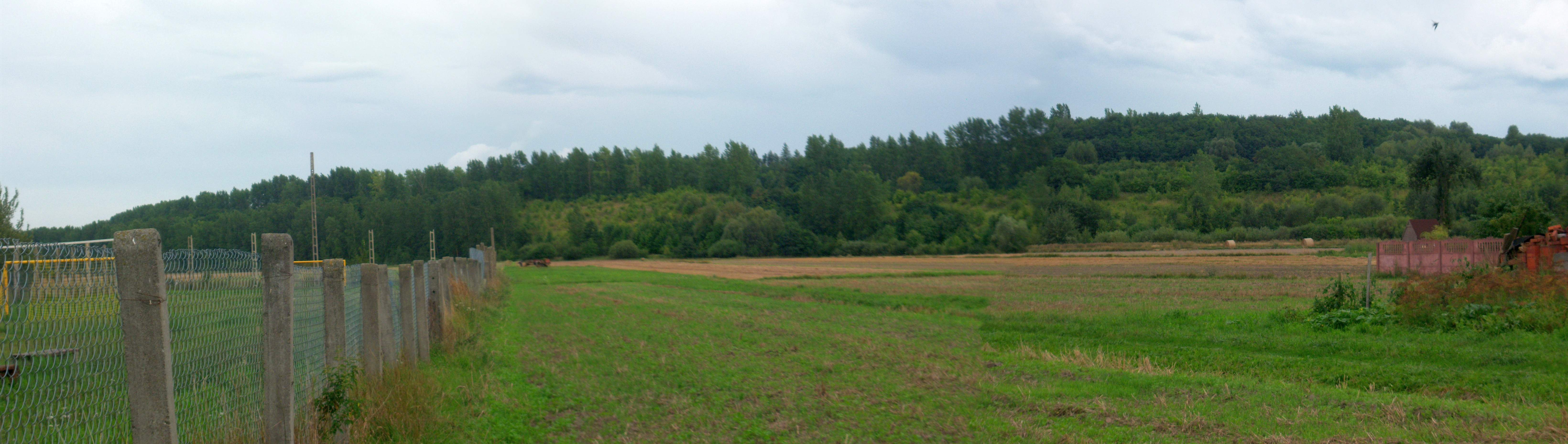 Outside landmass of inactive pit "Kazimierz South" of Lignite Mine "Konin" - view from Nieświastów